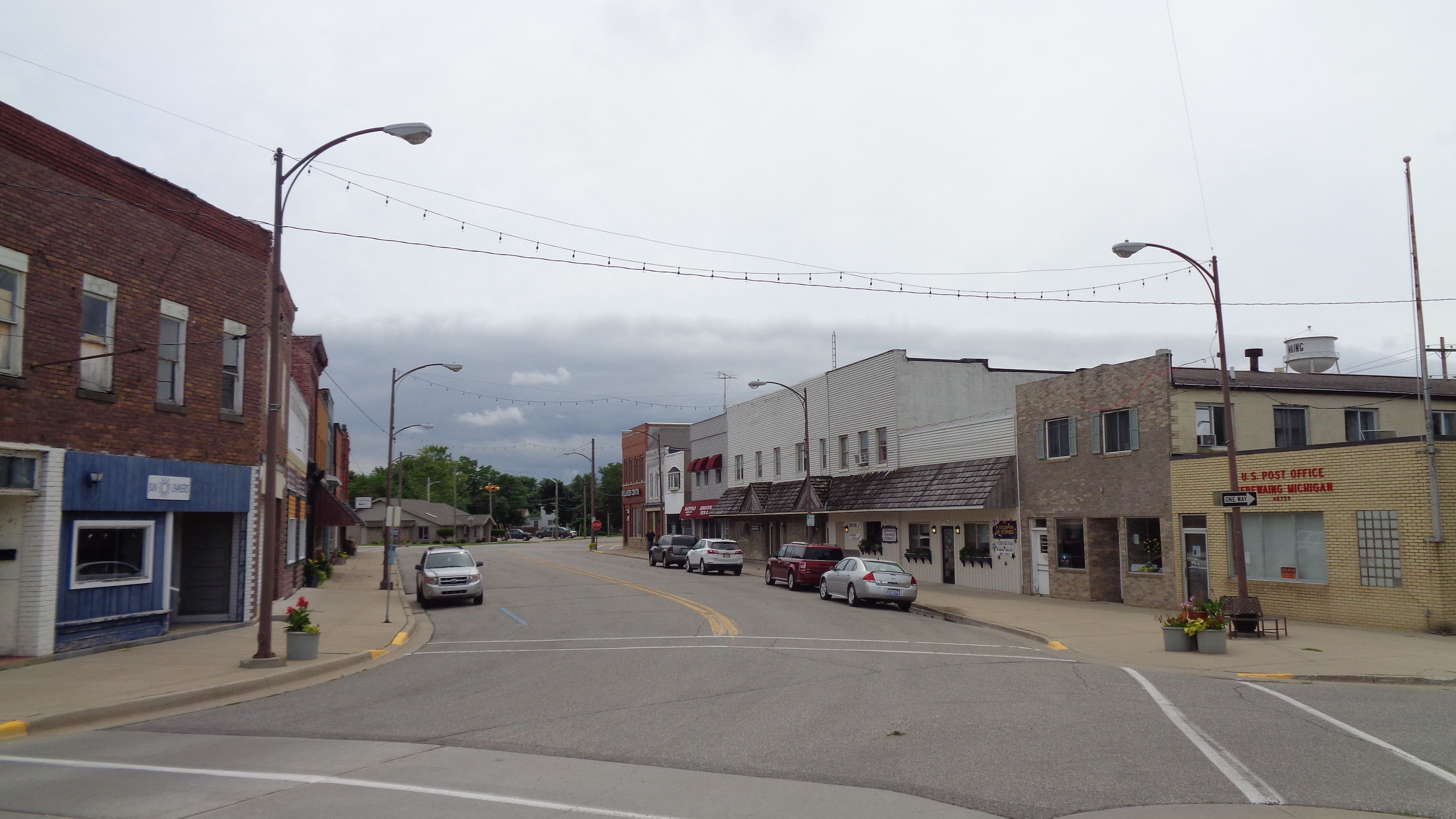 Depicted place: Sebewaing